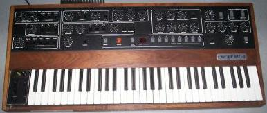 Sequential Circuits Prophet